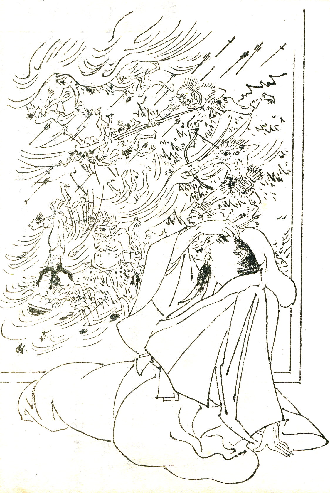 Kose no Hirotaka（巨勢弘高）was a court painter of Japan half in the Heian Period.This picture was drawn by Kikuchi Yosai（菊池容斎） who was a painter in Japan.